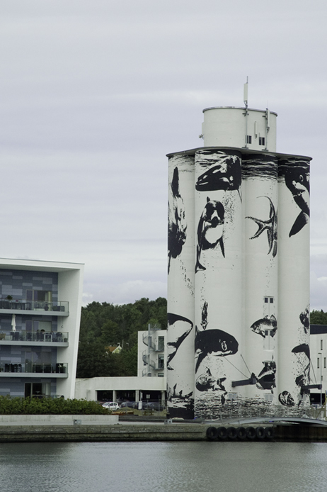 Victor Ash, Haderslev silo.